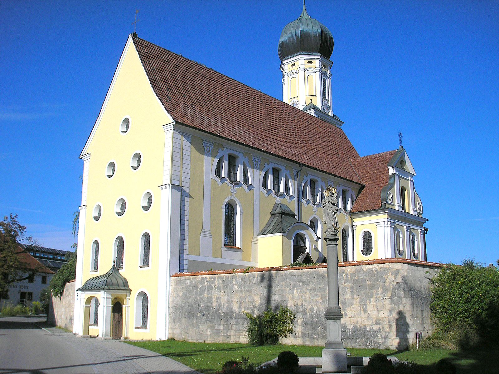 Parish church St. Ulrich (Ersesing, Landkreis Landsberg am Lech, Upper Bavaria, Germany). Total view from the south west